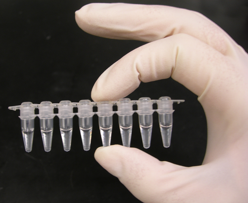 Photo of a strip of PCR tubes, each tube contains a 1000uL (1mL) reaction.